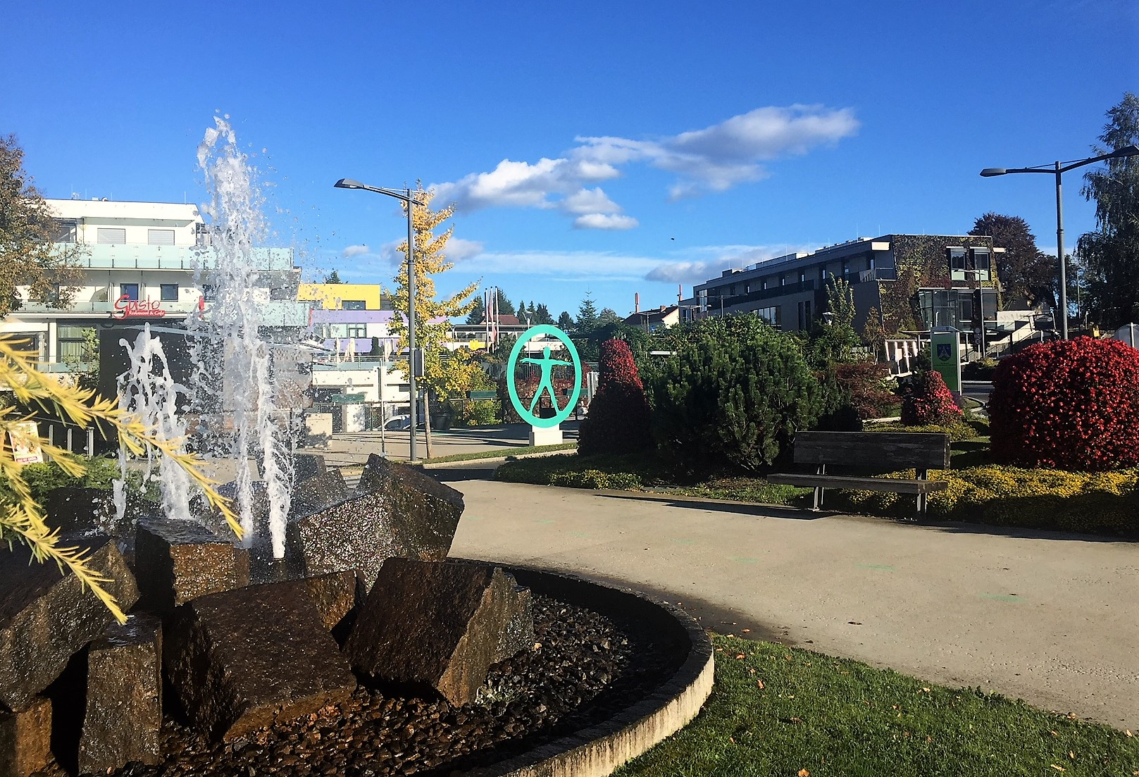 Image of the Lassnitzhoehe town center showing the community garden and fountain in the foreground with the main shopping area in the background